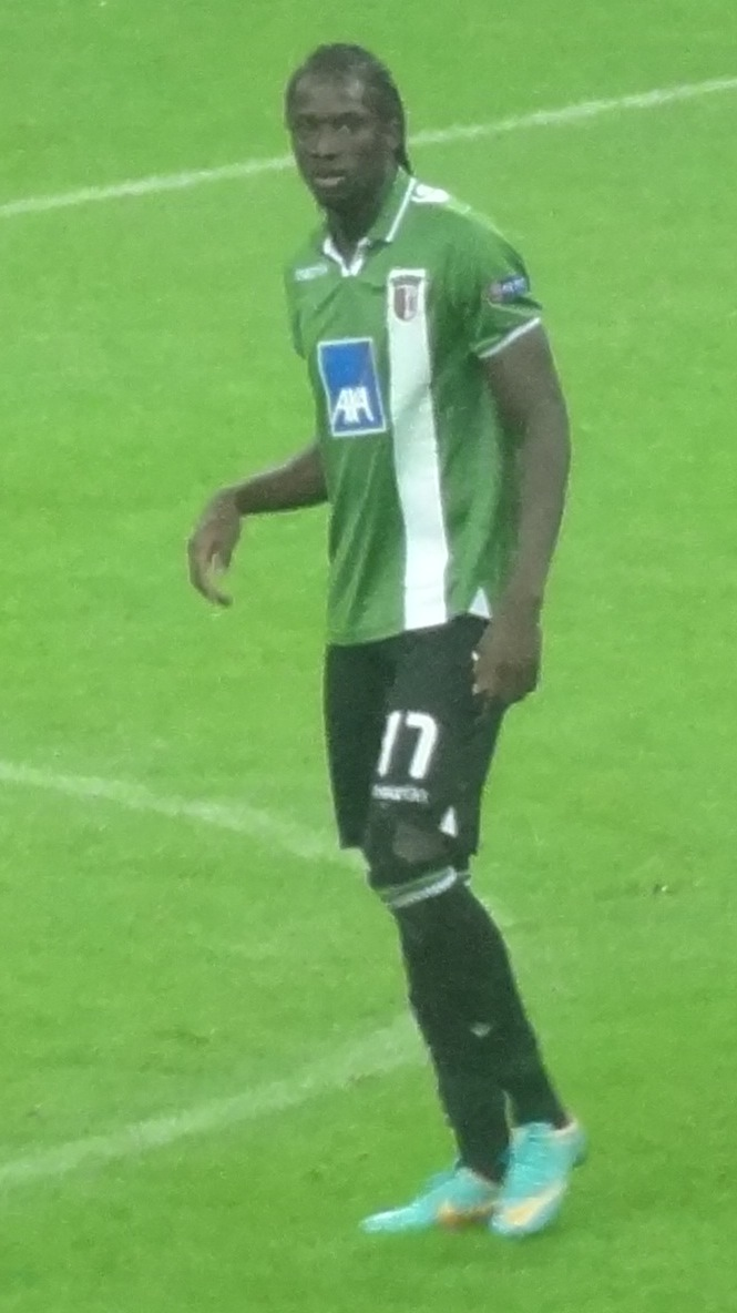 Eder @ GS match